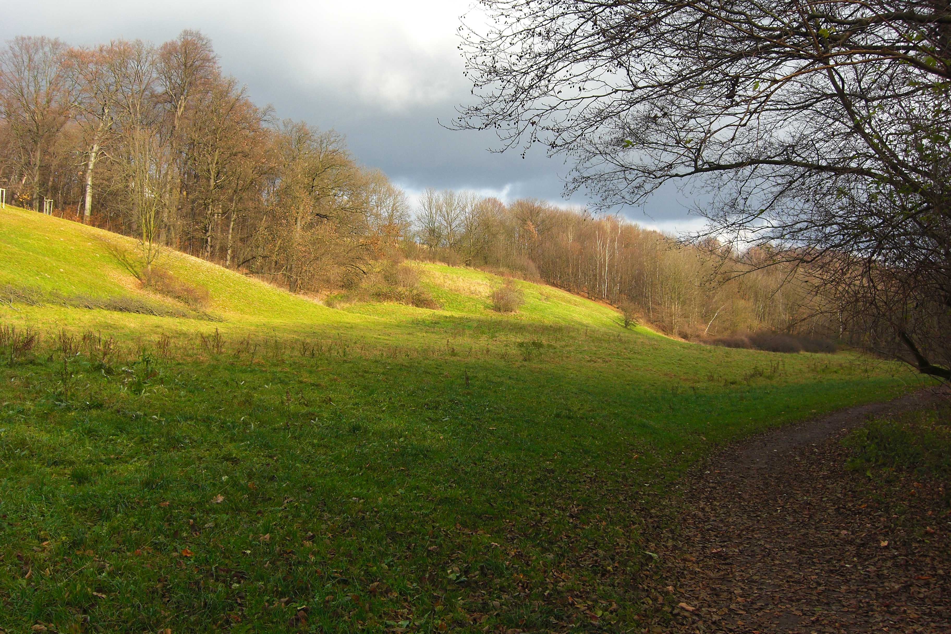 Zschoner Grund in Novembers sun (valley near Dresden)